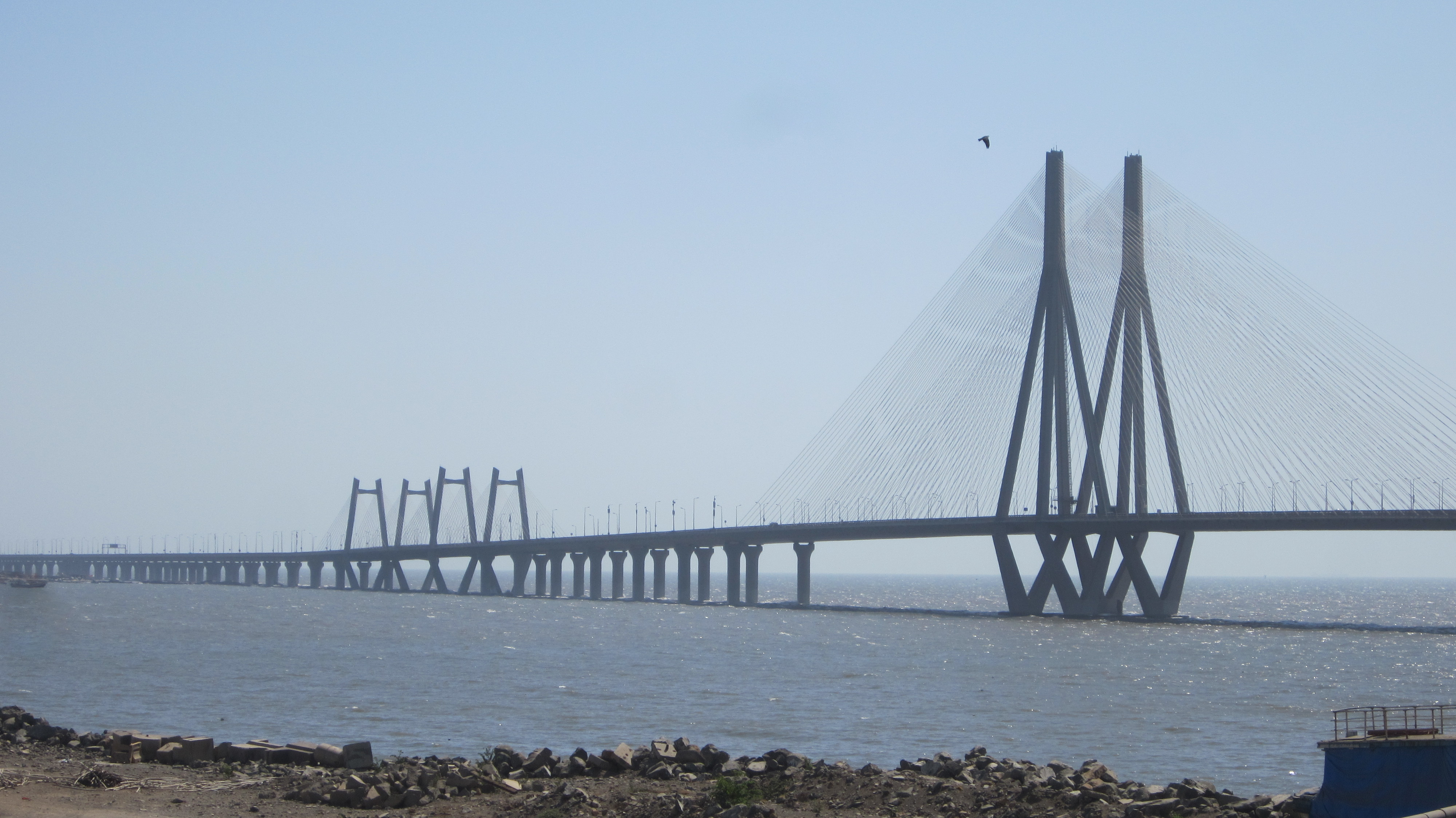 Rajiv Gandhi Sea Link that connects Bandra and Worli in Mumbai